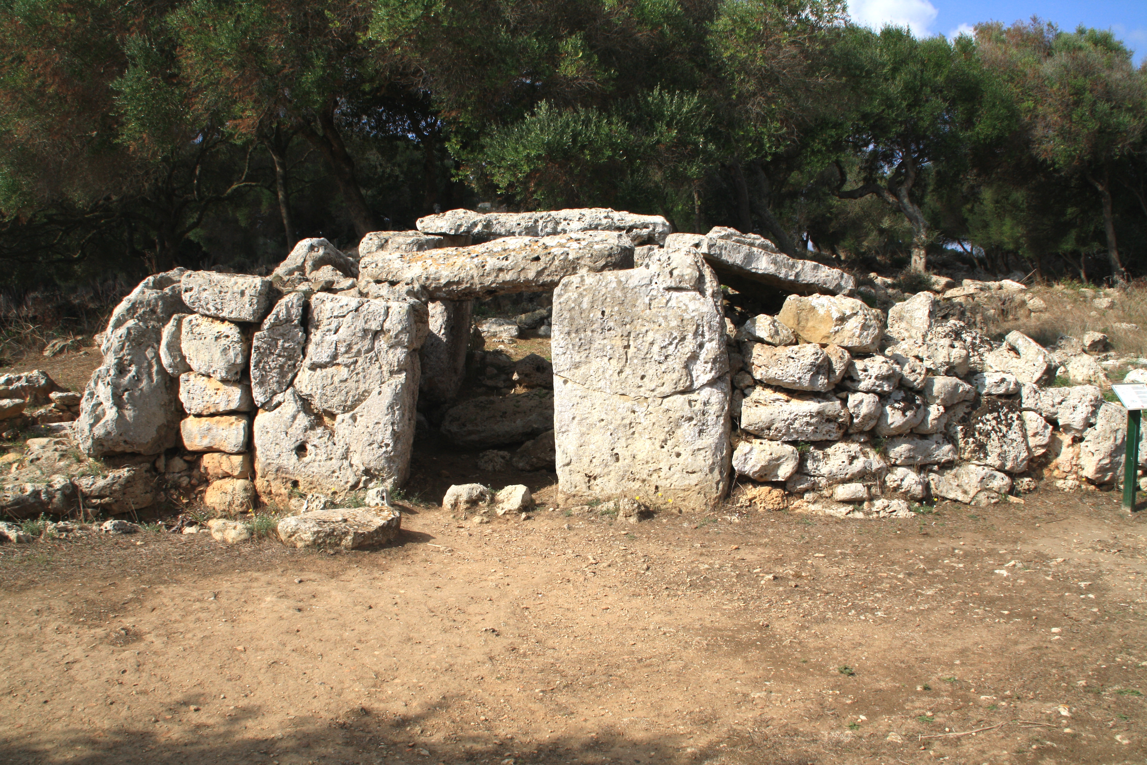 Covered doorway to a post-talayotic house in Talatí de Dalt settlement, Minorca.